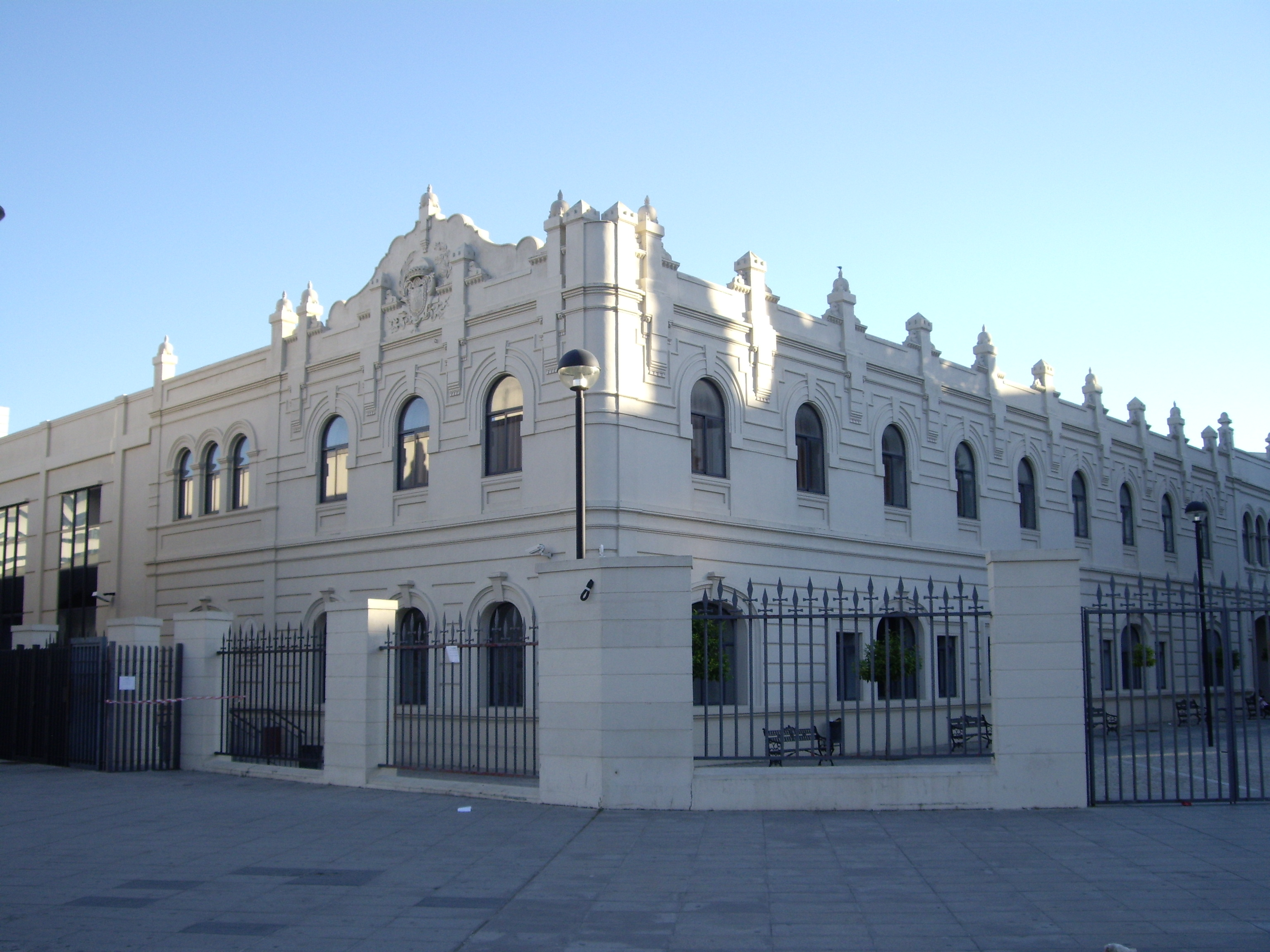 Fábrica de Pirotecnia Militar de Sevilla, ahora facultad de derecho de la Universidad de Sevilla